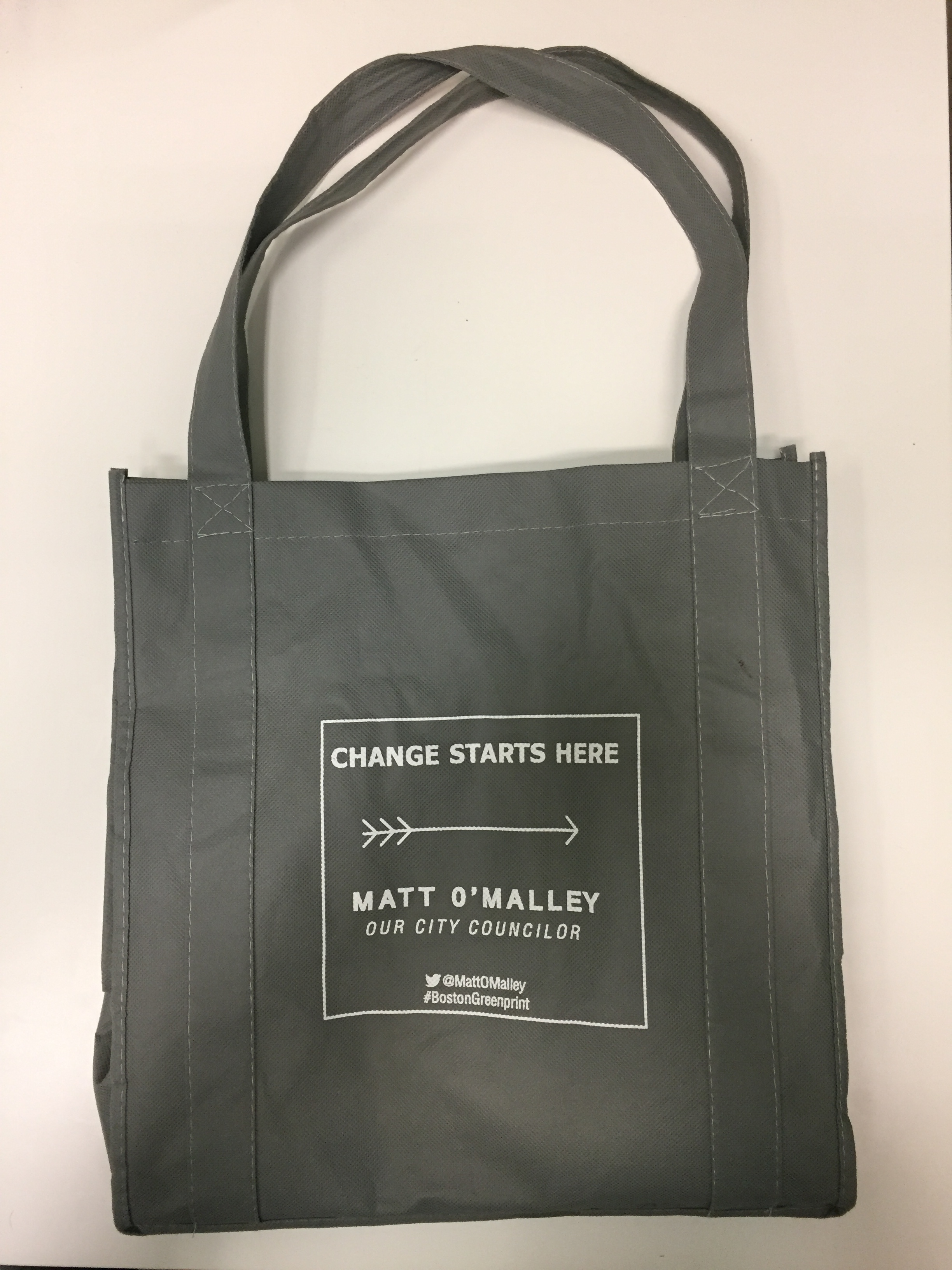 Councilor O'Malley has designed reusable bags for usage, as seen above.